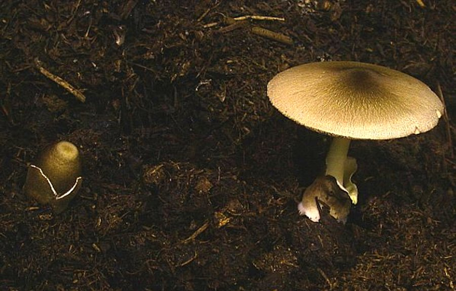 Carpophores on bark, stocked for preparation of compost.